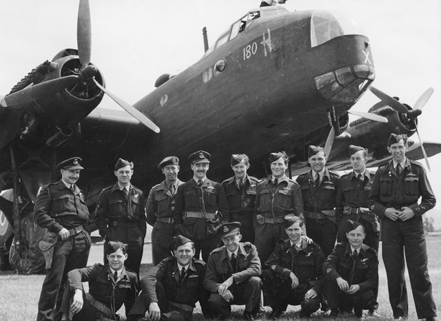 Australian members of No. 196 Squadron RAF photographed on 4 June 1944 with one of the squadron's Short Stirling aircraft in the background. This squadron towed gliders carrying the British 6th Airborne Division to France on D-Day (6 June 1944).